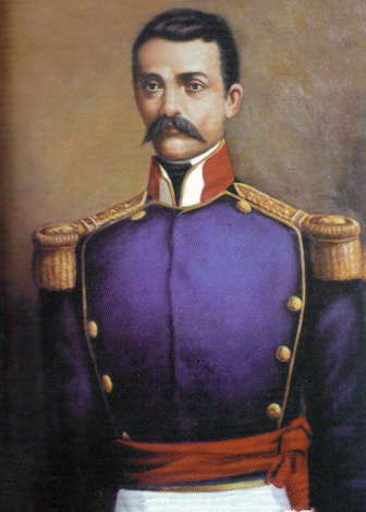 Retrato de Matias Ramón Mella Castillo, padre de la patria dominicana.